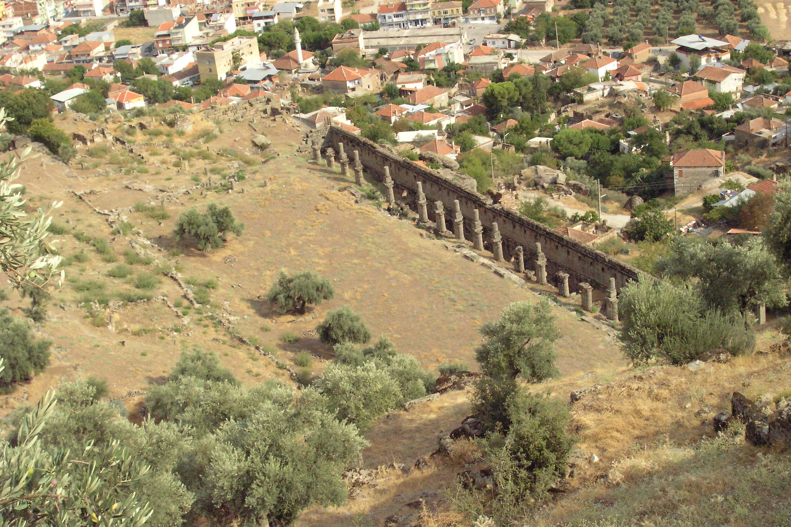 Agora of Alinda, ancient Carian city, western Turkey.